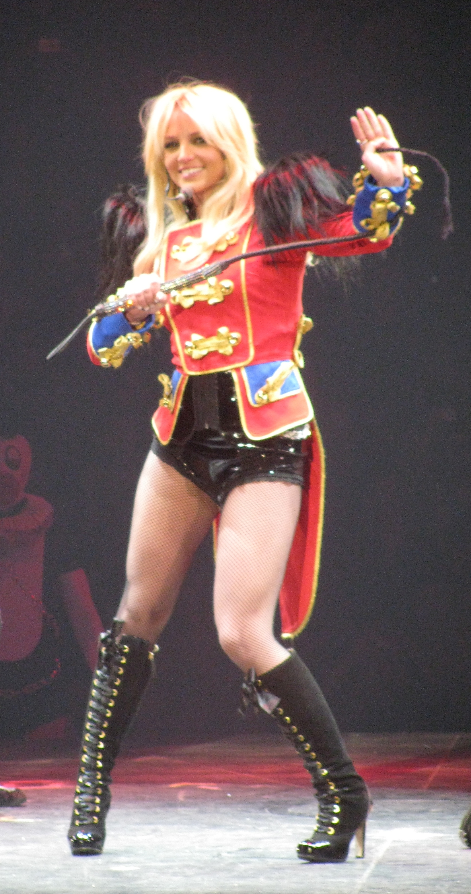 Britney performing Circus on her 2009 World Tour In Boston